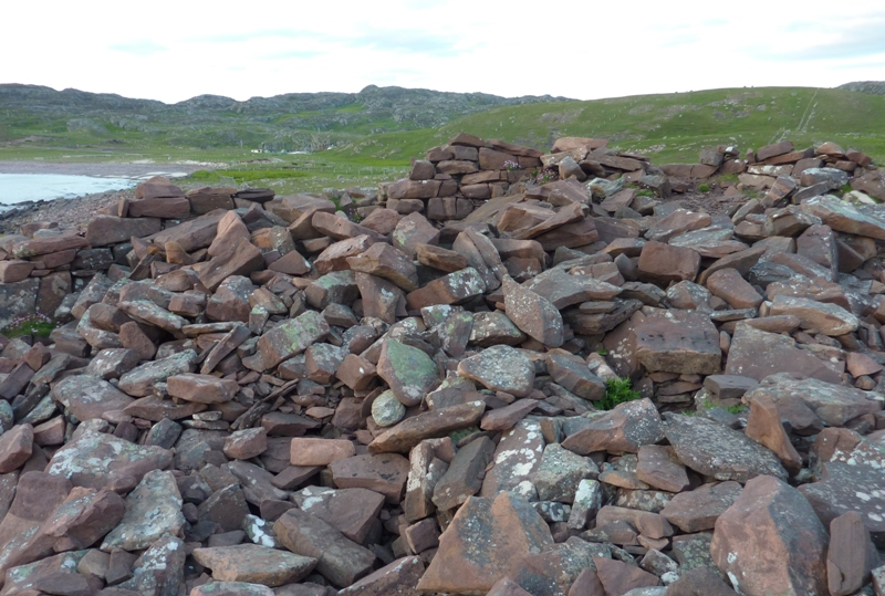 Clachtoll Broch, Sutherland, Scotland